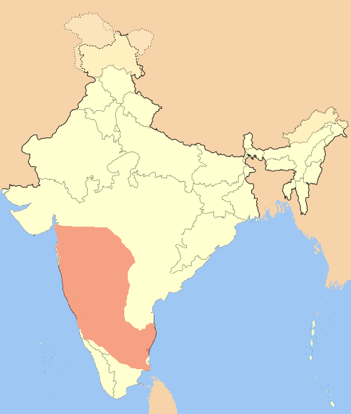 In red is the Maratha Empire , 1680